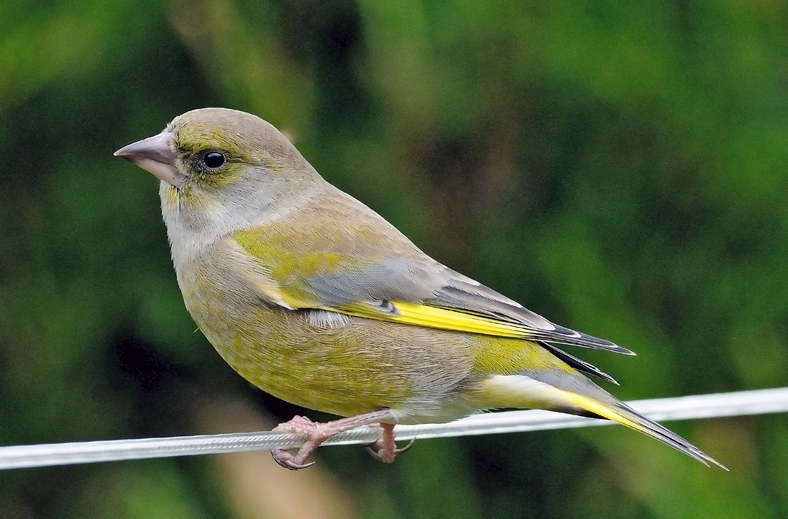 An European Greenfinch in England.